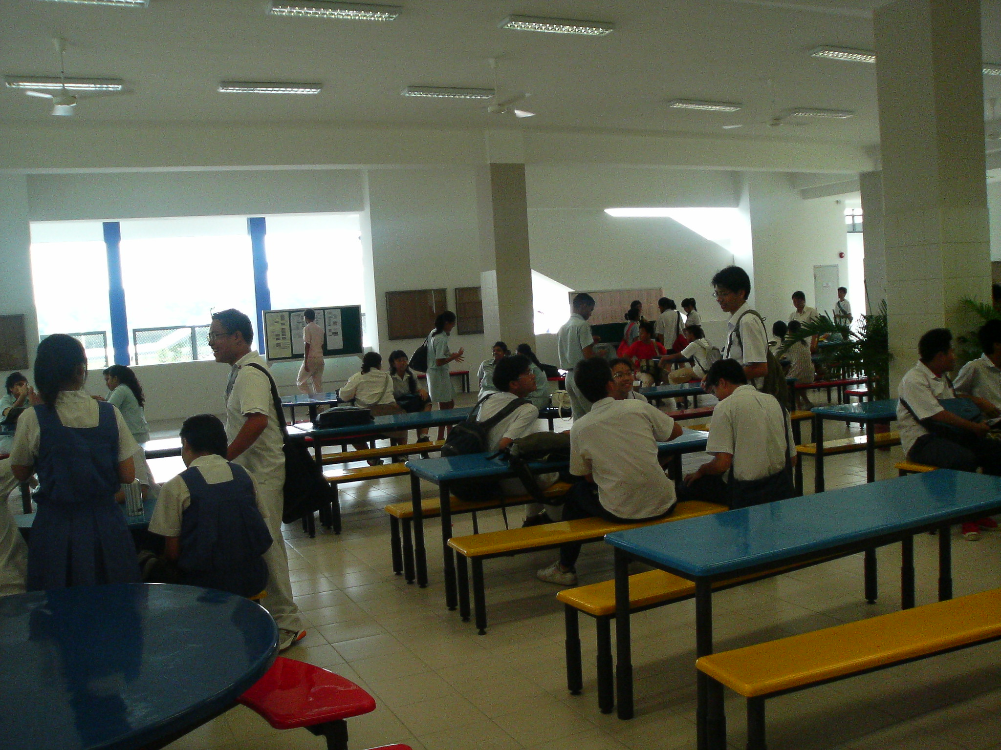 mi canteen with students in different uniforms